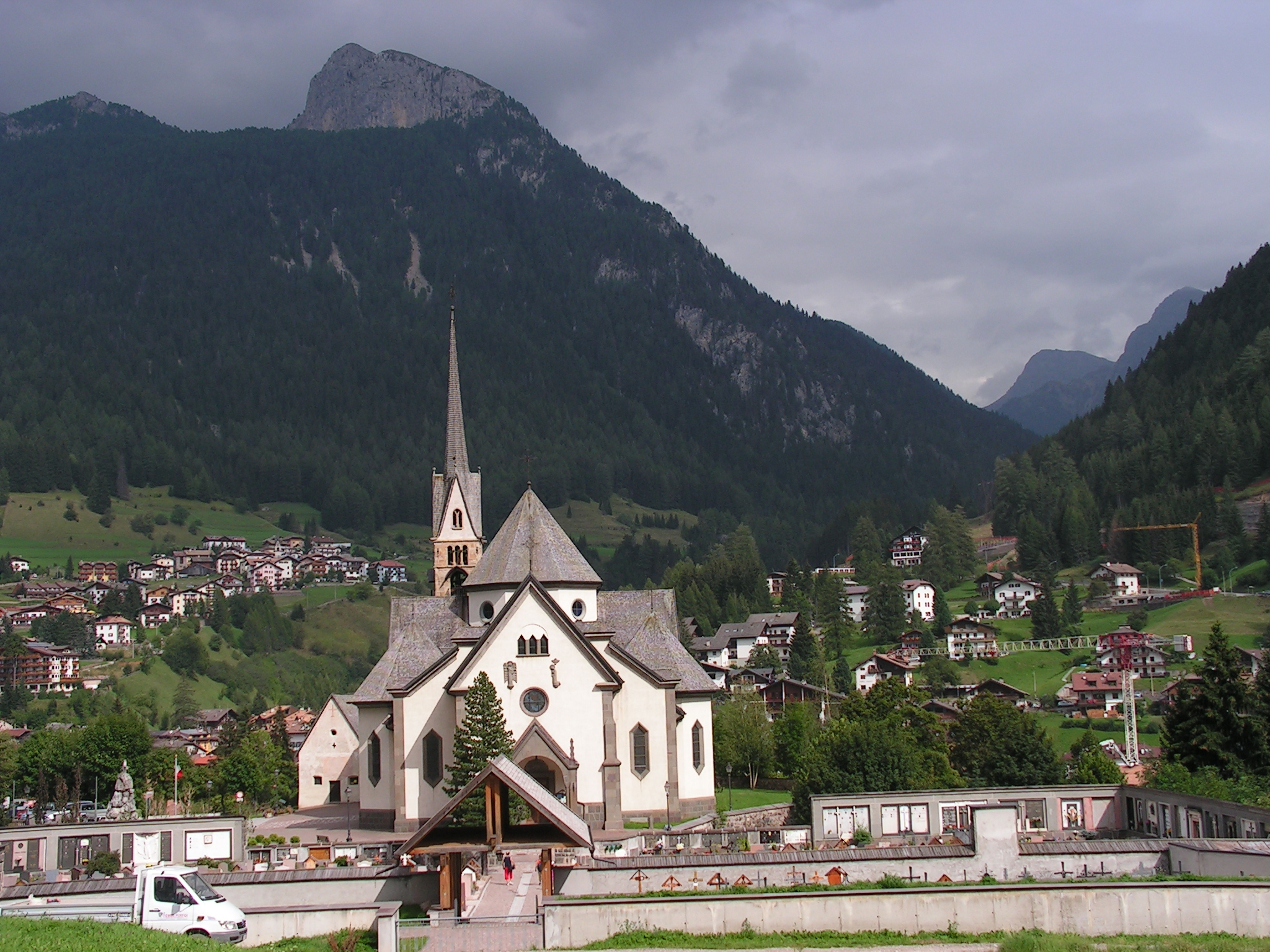 The church of St. Vigil in Moena (Italy)